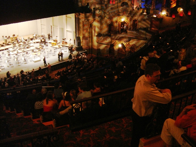 The Majestic Theatre, San Antonio